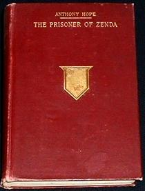 second edition cover of The Prisoner of Zenda by Anthony Hope